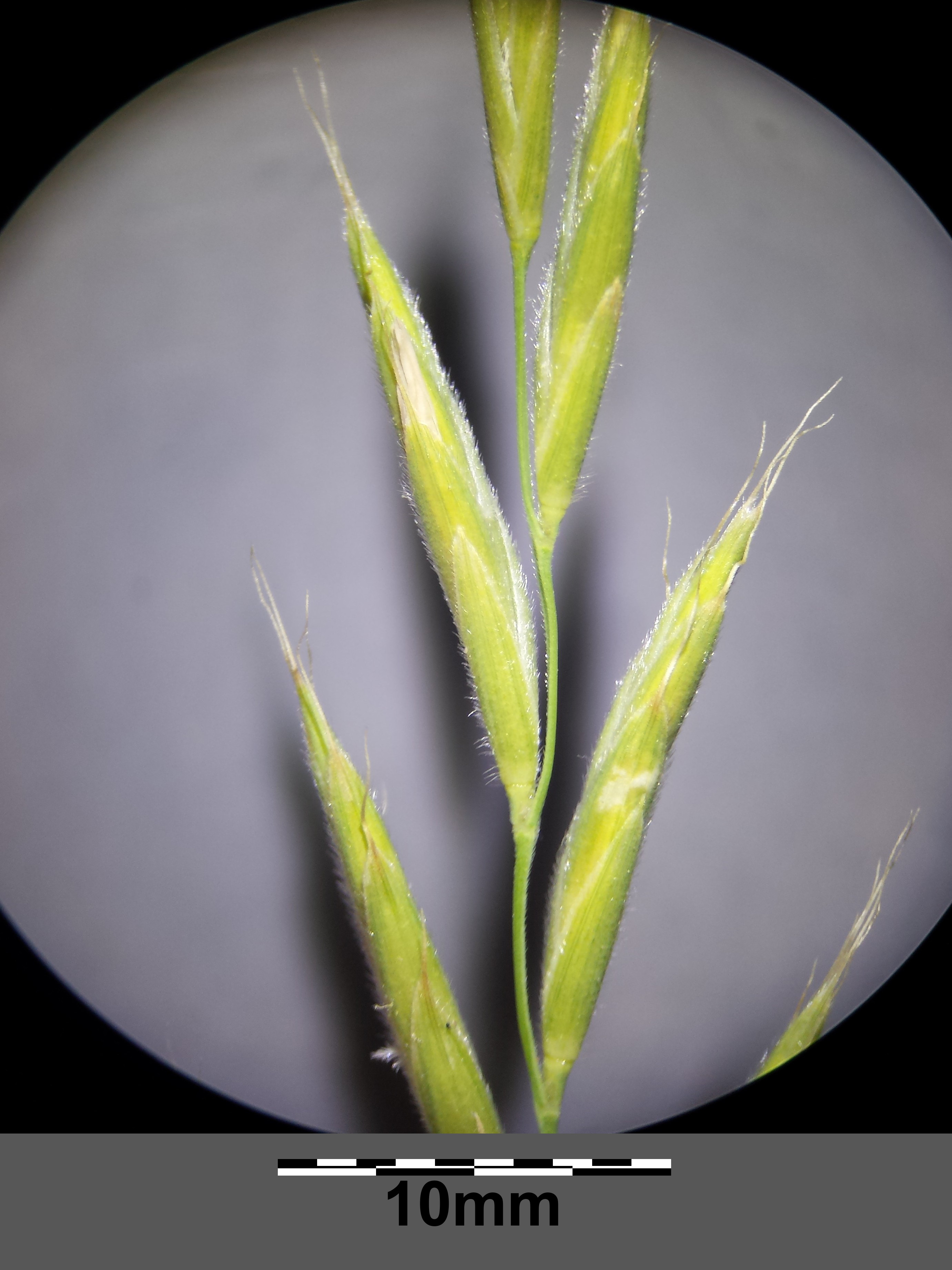 Spike (detail) Taxonym: Brachypodium pinnatum ss Fischer et al. EfÖLS 2008 ISBN 978-3-85474-187-9 Location: Latschenberg near Altenmarkt im Thale, district Hollabrunn, Lower Austria - ca. 330 m a.s.l. Habitat: semi-dry grassland